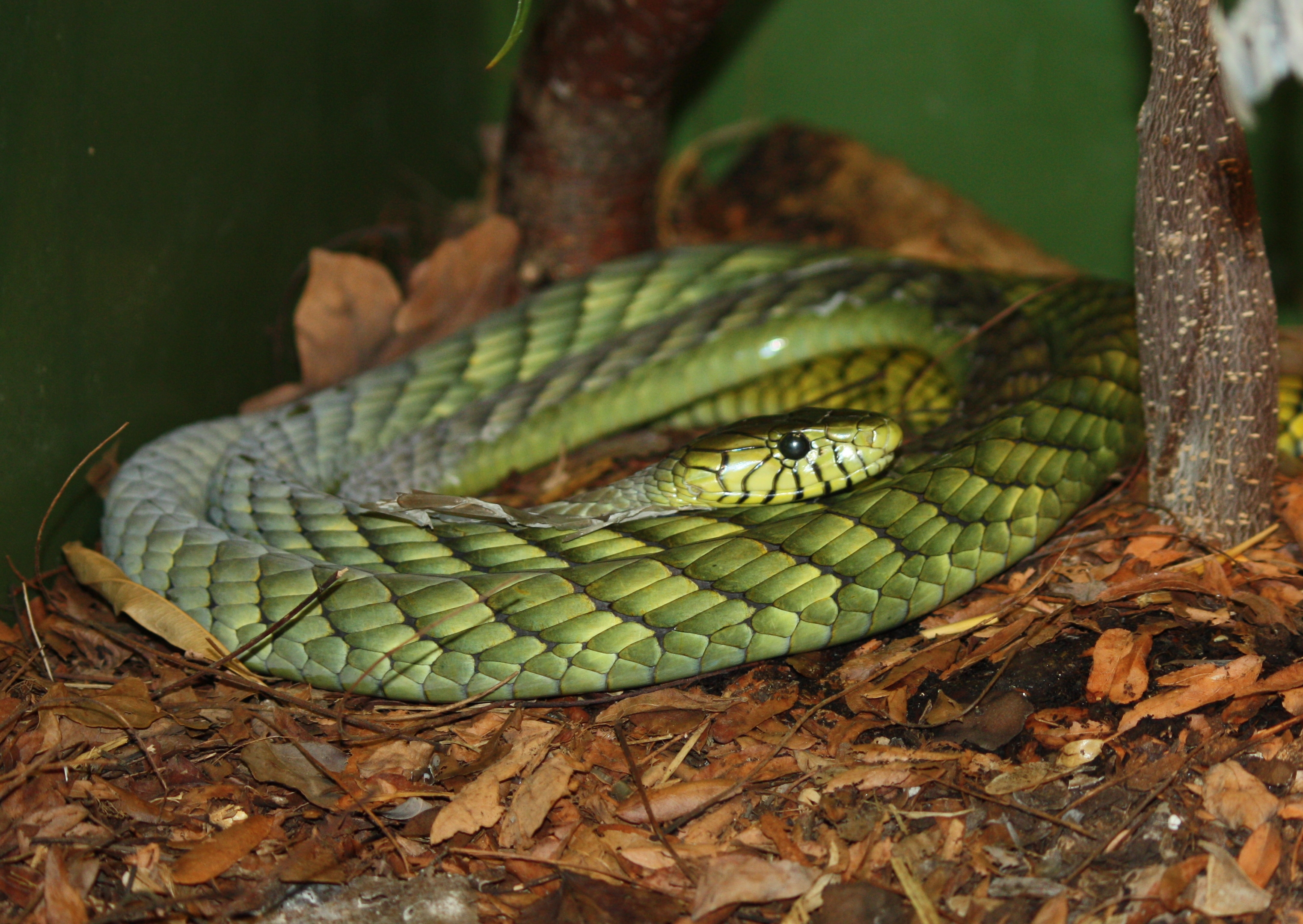 Western Green Mamba at the Louisville Zoo